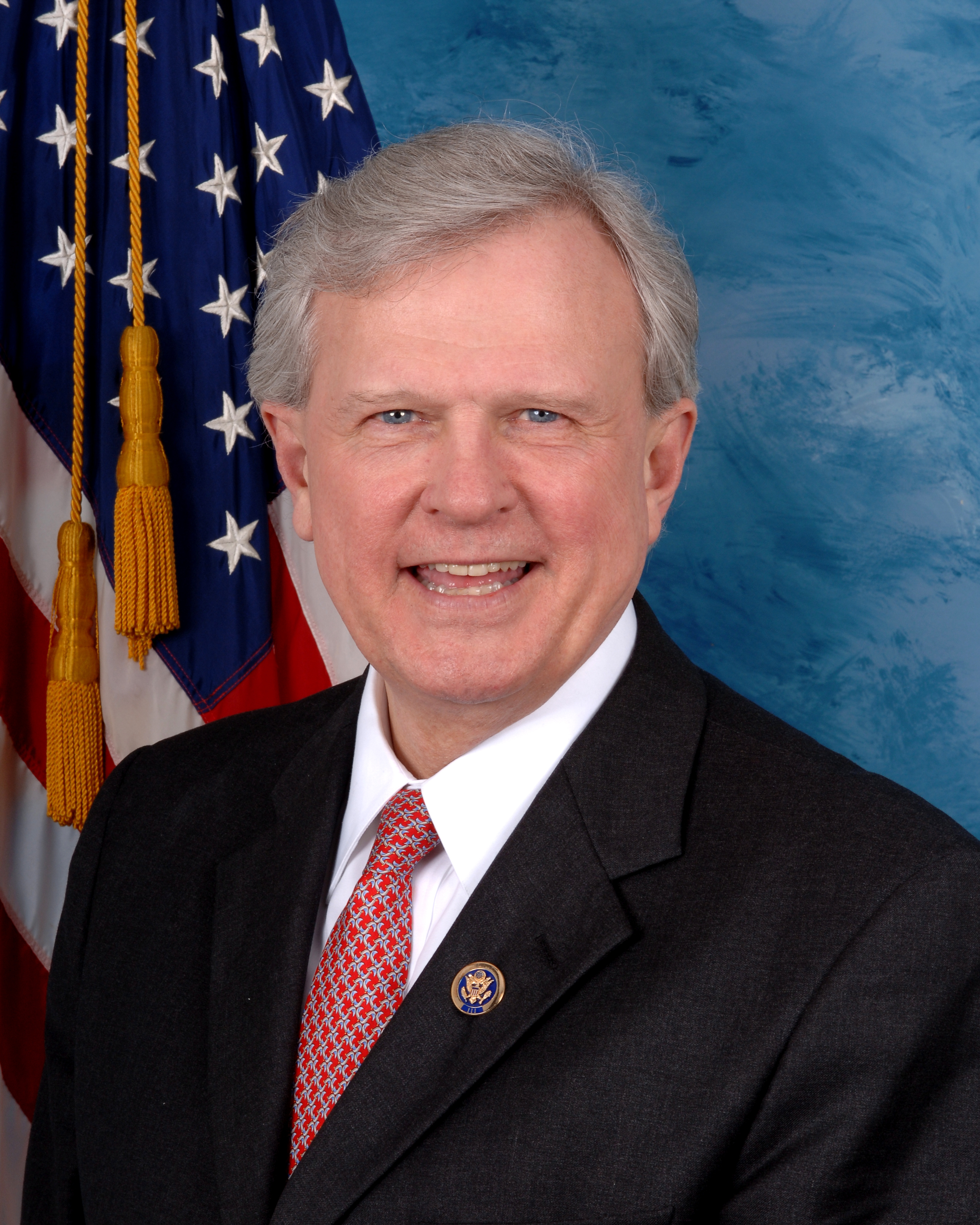 Parker Griffith, member of the United States House of Representatives.